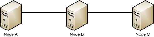 Myself Amit Goyal A network diagram for given example